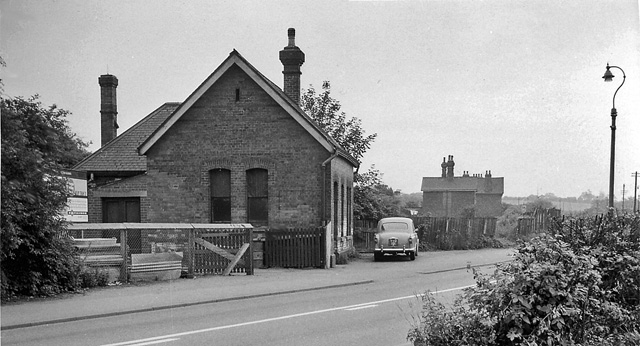 Bestwood Colliery Station (remains). View SE of exterior of station on the ex-GN Leen Valley line; station and passenger services closed 14/9/31; this station was closed for goods on 7/4/58 and the line ceased to function in 1968, being one of three parallel lines in the Valley.